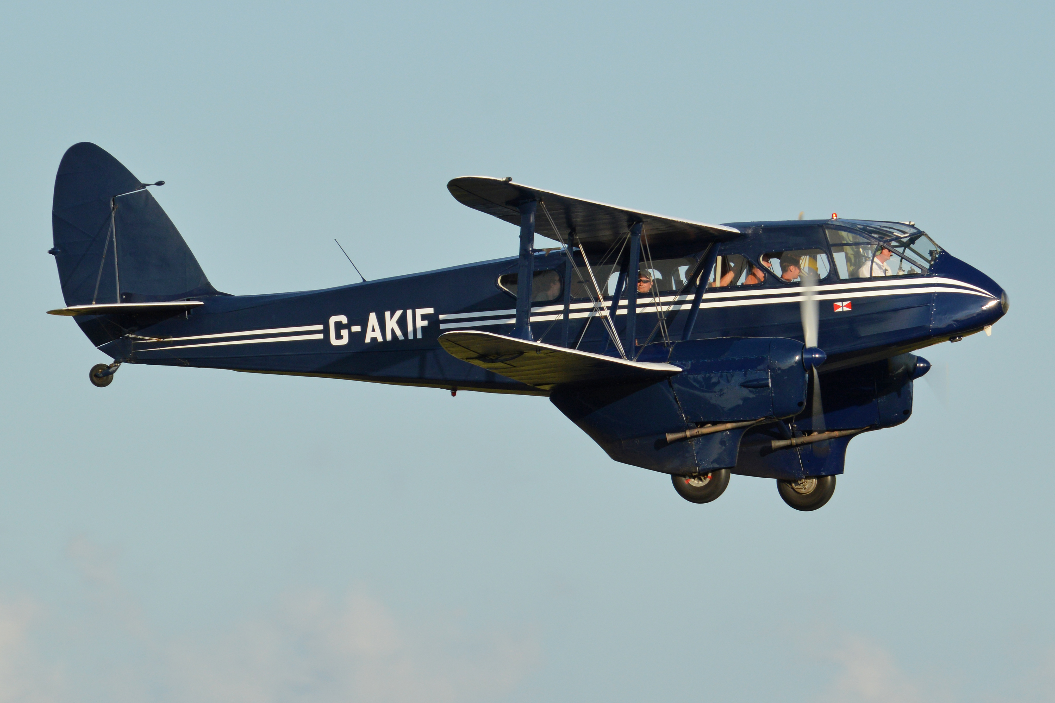 c/n 6838. Built 1944 with the UK military serial 'NR750'. Now in civil colours and seen departing on a pleasure flight as part of the ‘Classic Wings’ operation. 2017 Flying Legends Airshow, Duxford Airfield, Cambridgeshire, UK. 8th July 2017.